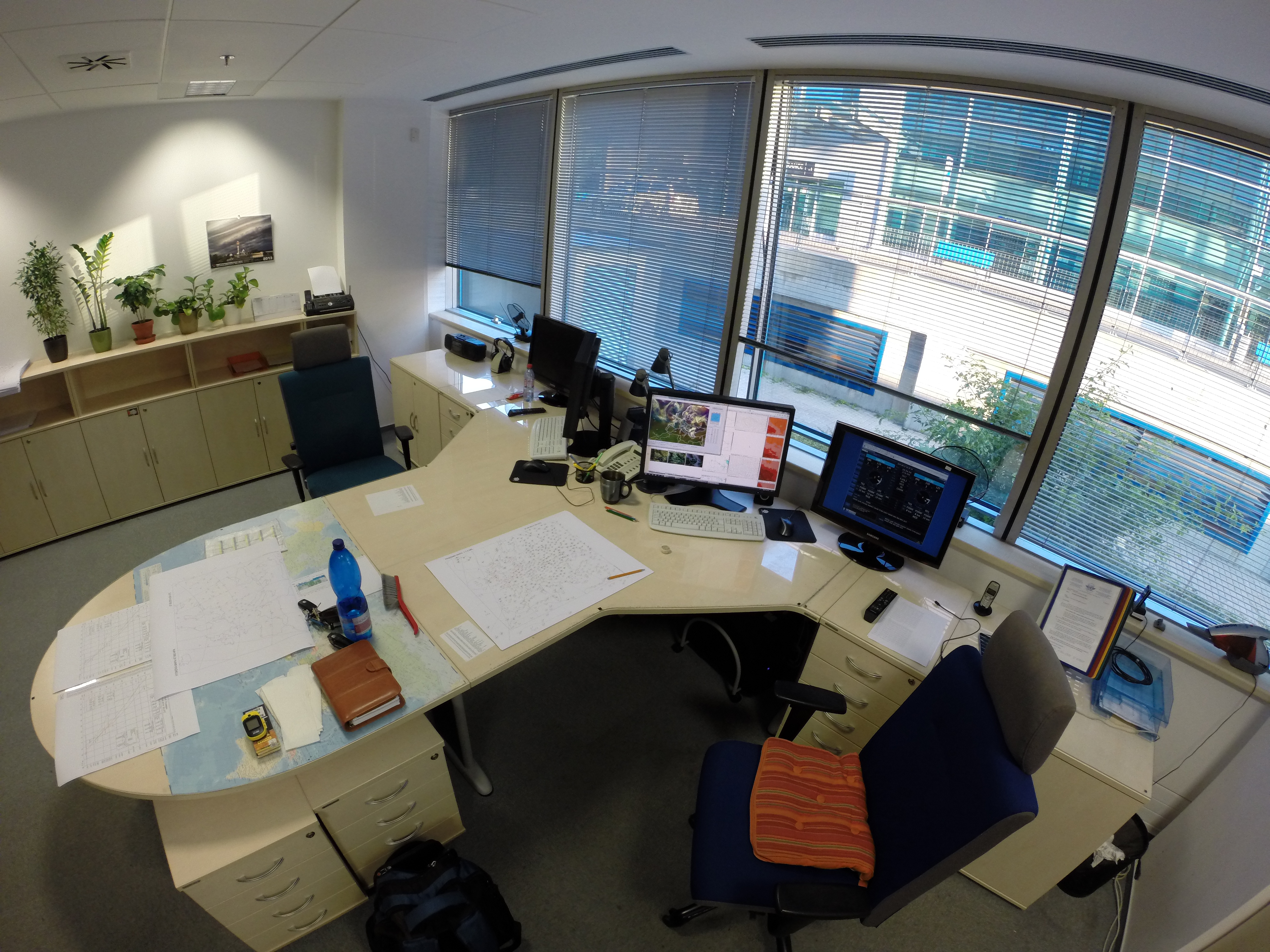 Meteorological workstation at the airport Vaclav Havel in Prague, Czech Republic